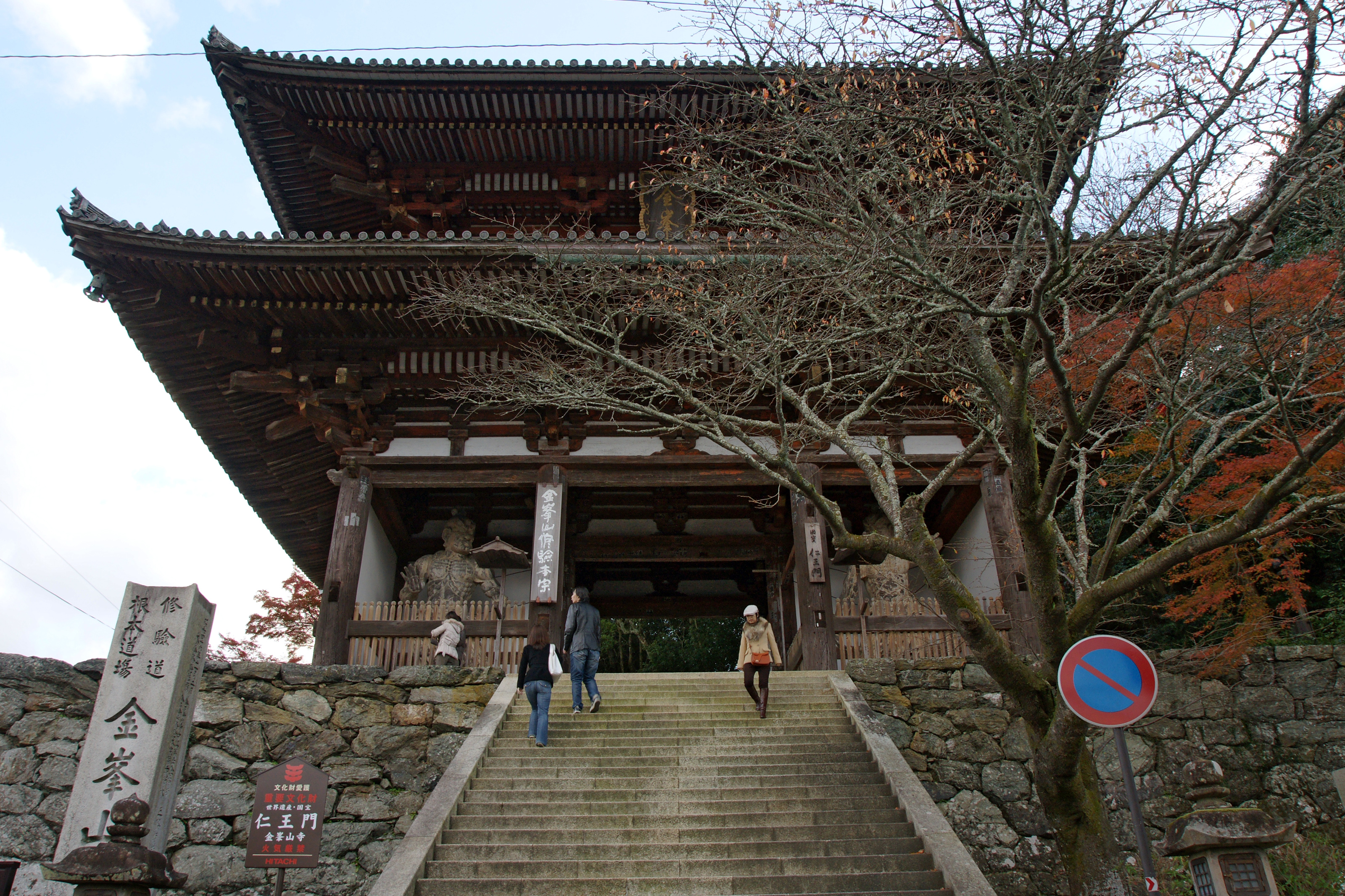 Niomon of Kinpusenji Buddhist temple (Japan's National Treasure) in Yoshino, Nara prefecture, Japan. It was rebuilt in 1456.